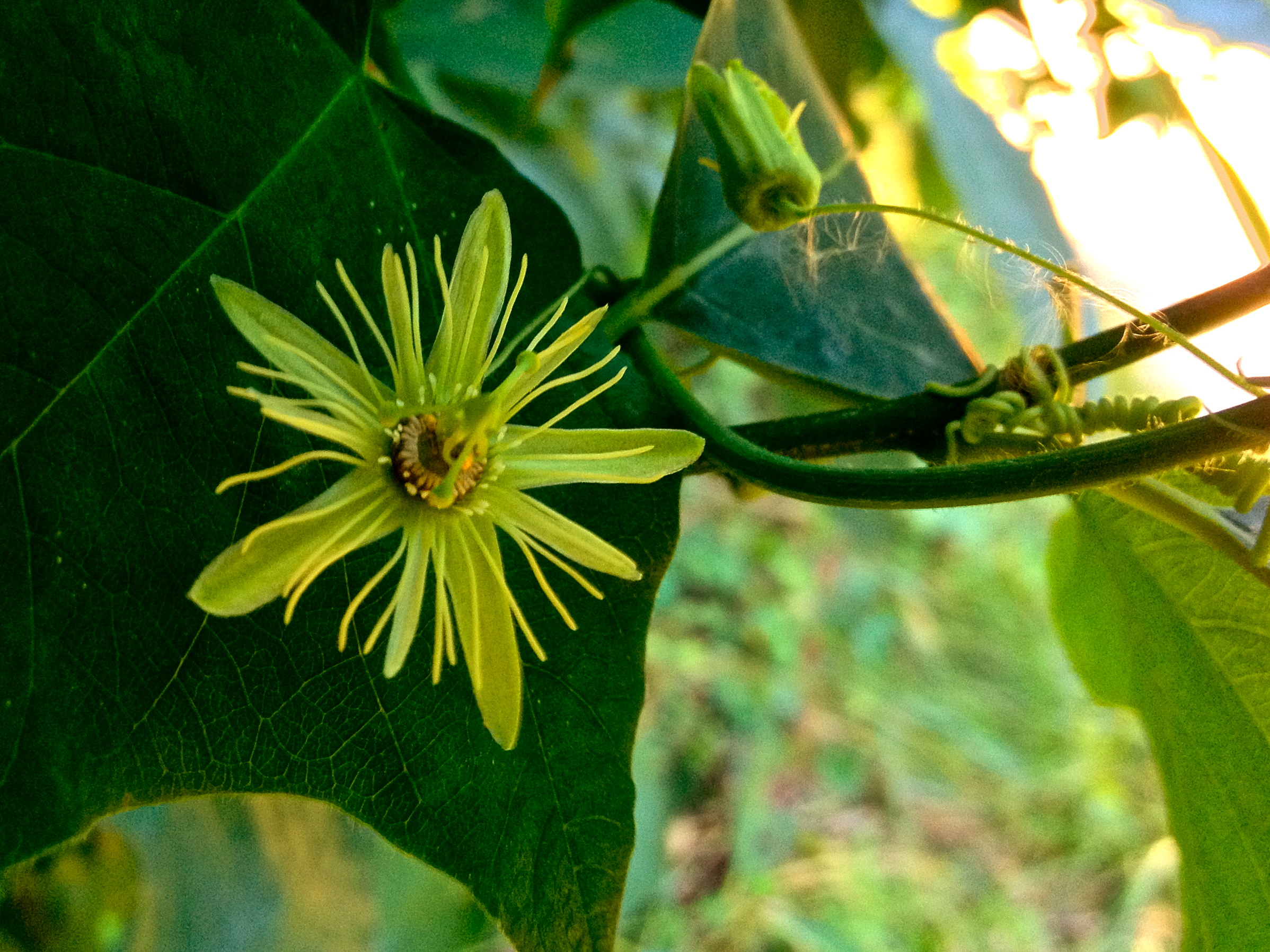 Photo of Passiflora lutea in flower. This is a native plant growing wild in the Chesapeake & Ohio Canal National Historic Park, Montgomery county Maryland, USA. This species is a member of the Passifloraceae family.